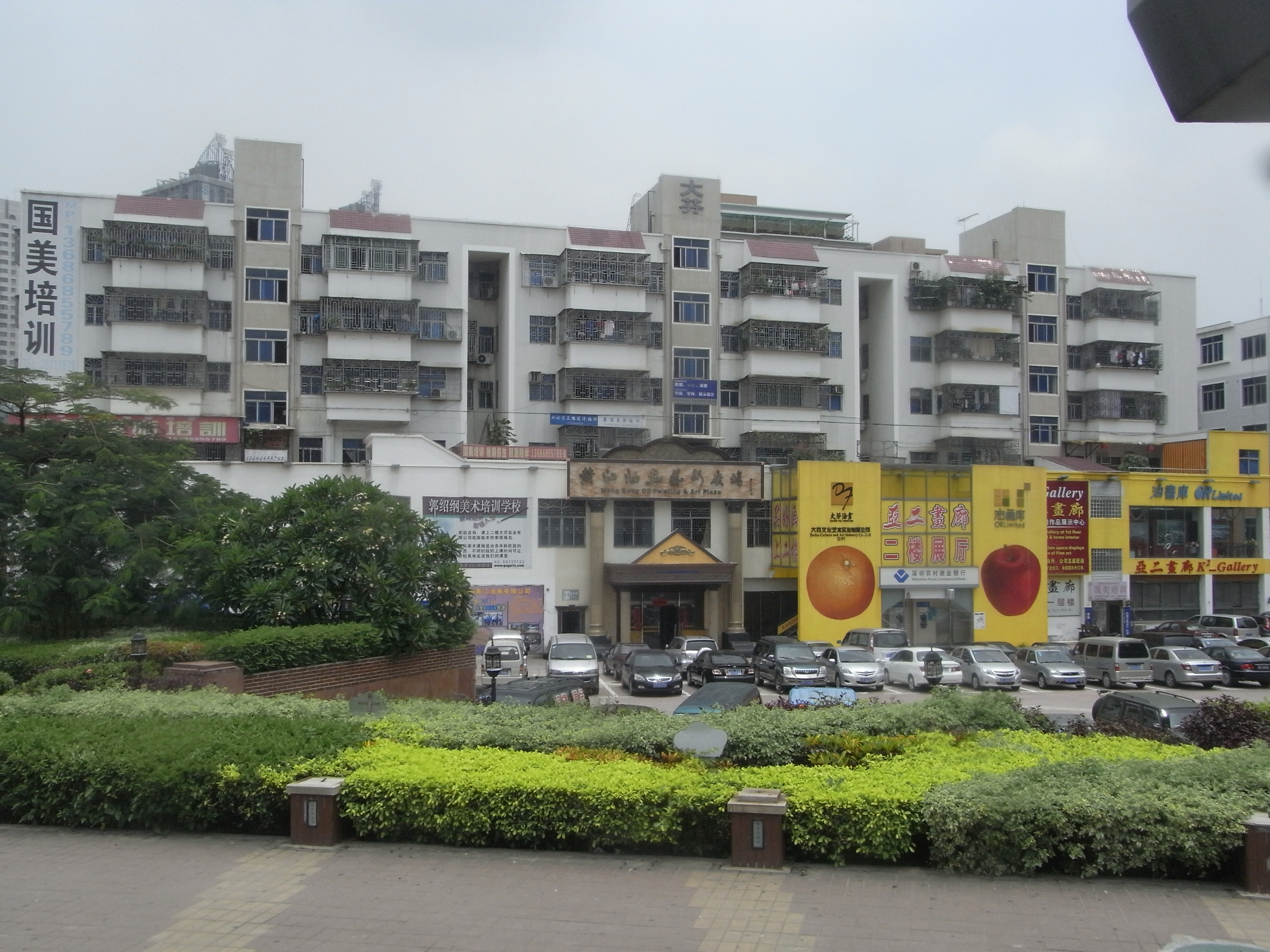 龍崗區布吉街道 大芬村